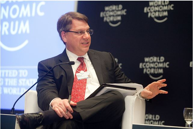 Rich Lesser at the World Economic Forum on Latin America 2011